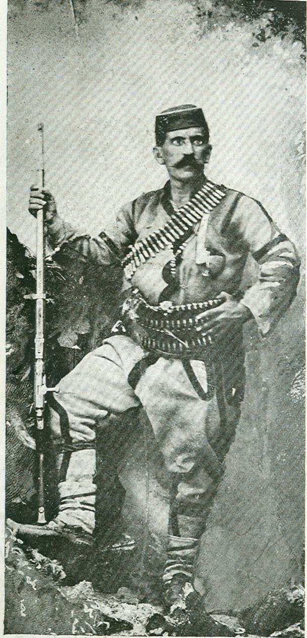 Portrait of Giurchin Naumov-Pliaka